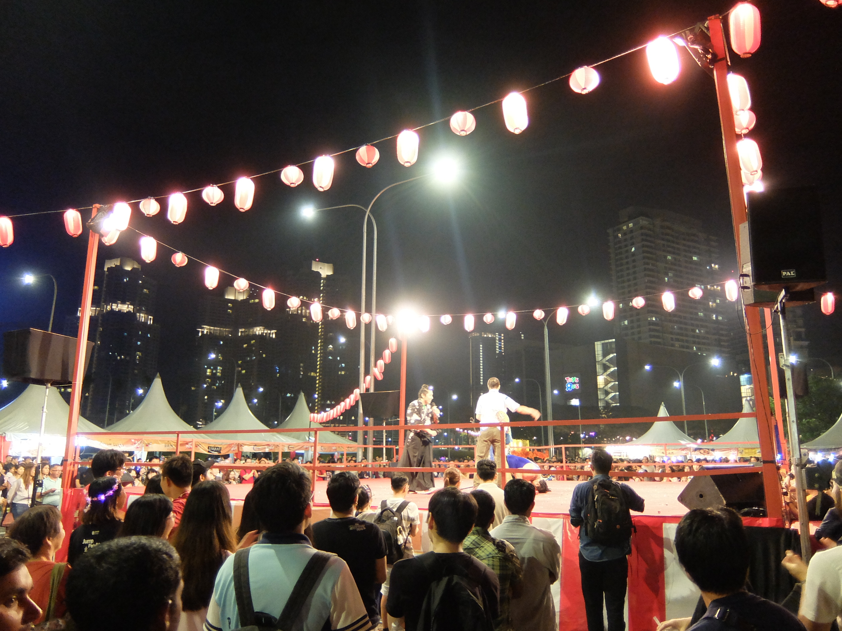 Aki Matsuri 2018 @ Puteri Harbor, Iskandar Puteri, Johor Bahru, Johor, Malaysia